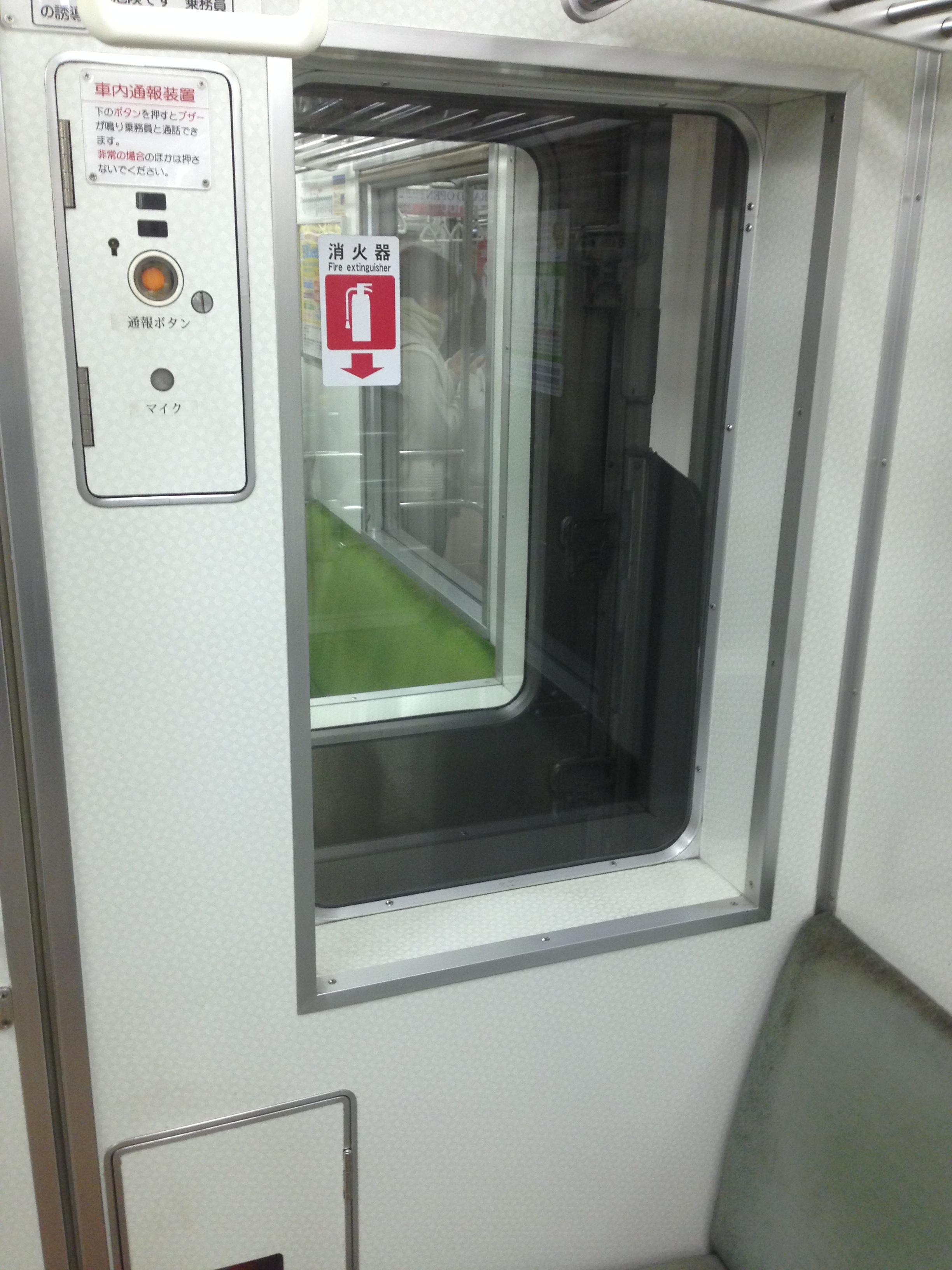 A window on Kyoto subway 10 series on later batches